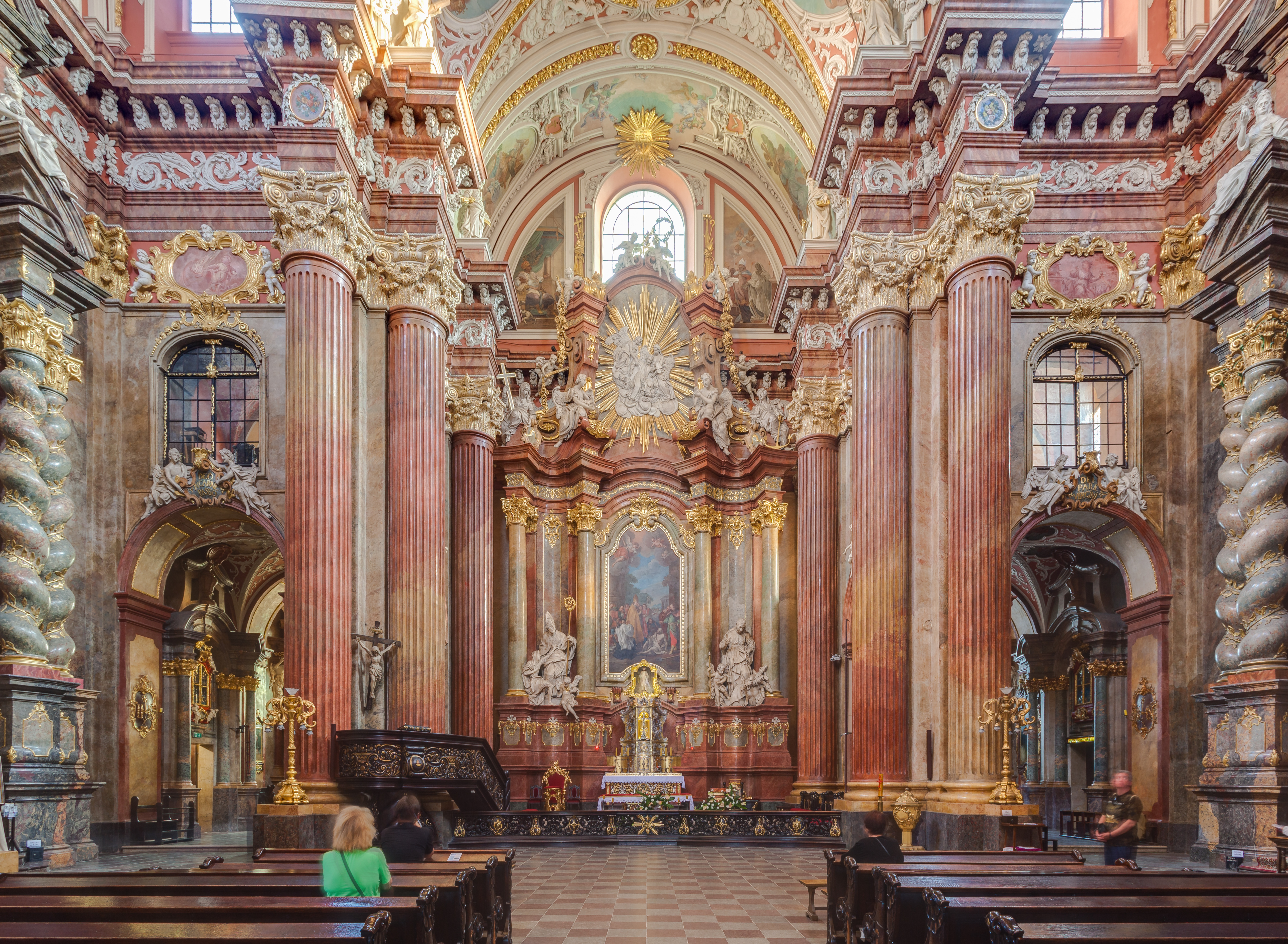 Collegiate church, Poznań, Poland